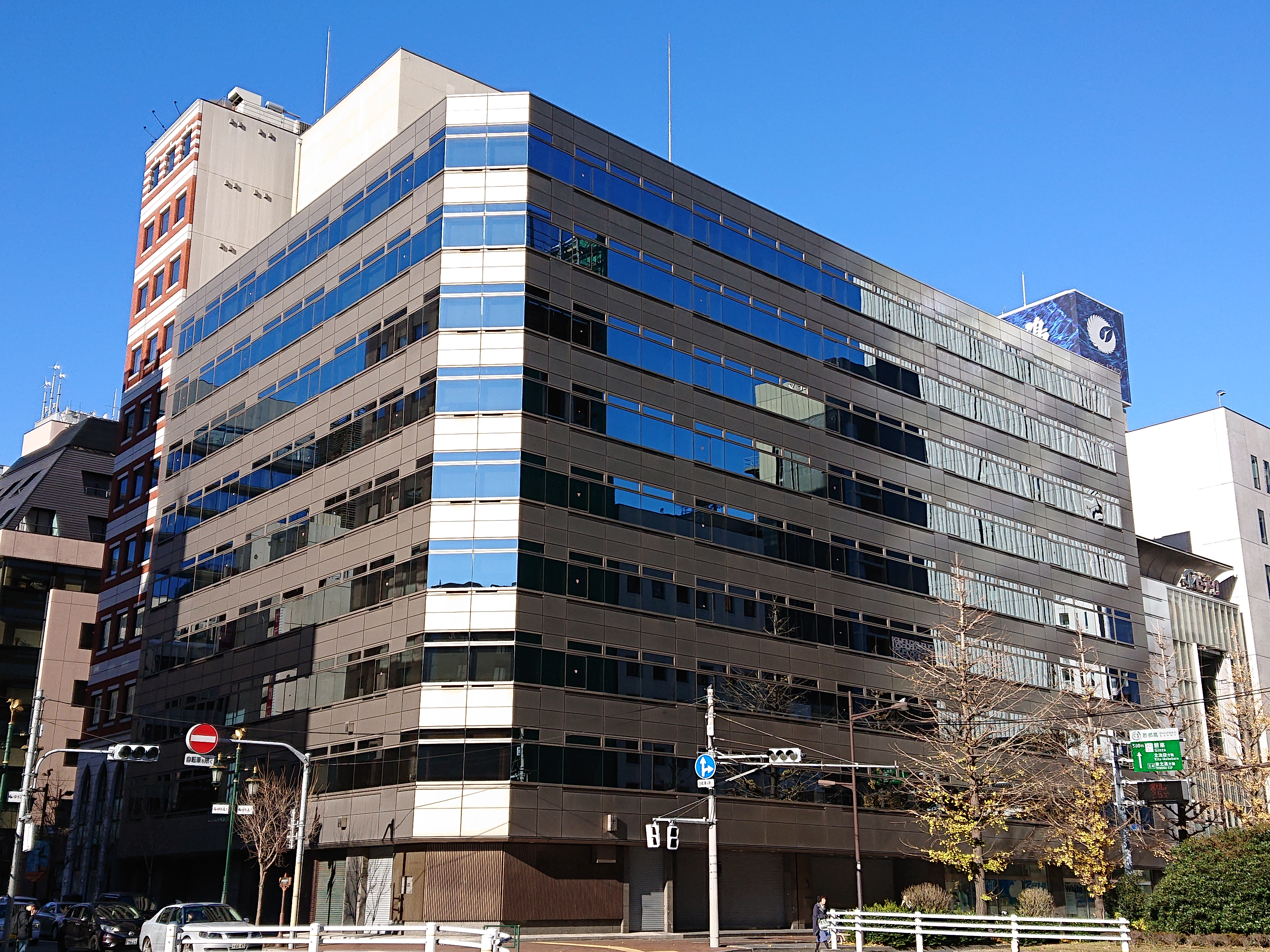 Oji Holdings Ichigokan (王子ホールディングス1号館), located at 5-12-8 Ginza, Chuo, Tokyo, Japan